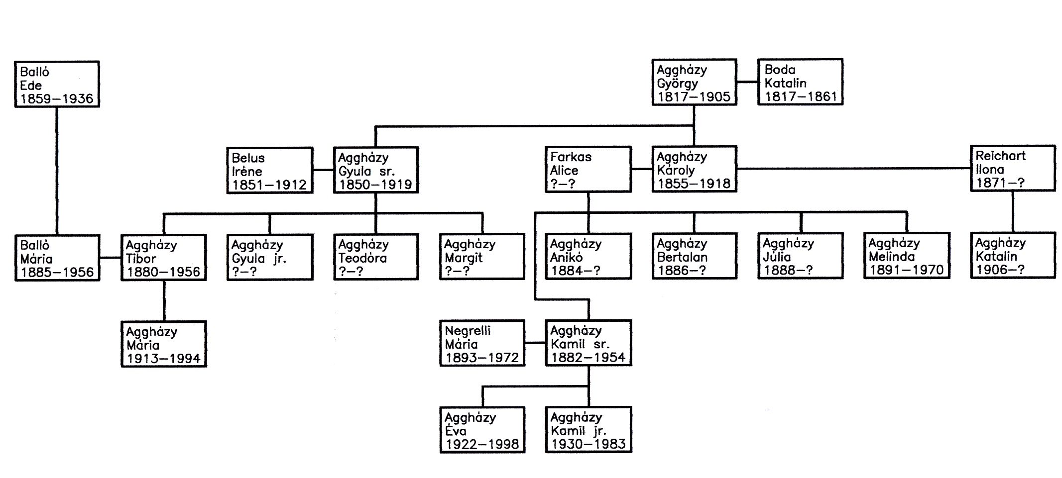 Aggházy family tree